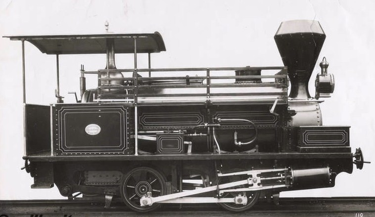 A Hunslet Engine Company builder's photograph of Western Australian Government Railways (WAGR) D class locomotive no. 6, builder's number 331 of 1884. Some of the information in the description above is obtained from Gunzburg, Adrian (1984). A History of WAGR Steam Locomotives. Perth: Australian Railway Historical Society (Western Australian Division), p. 25. ISBN 0959969039. As the photograph is a builder's publicity photograph, it would have been first published in about 1884. Alternatively, it was first published more than 25 years ago, in Gunzburg (1984), p. 25 (courtesy of Hunslet Holdings PLC), and therefore no publication right can now apply. Gunzburg does not identify the author, and it is reasonable to assume that this is because as of 1984 the photograph had been taken 100 years earlier, and therefore the author could not be ascertained by reasonable enquiry, whether in 1984 or now.